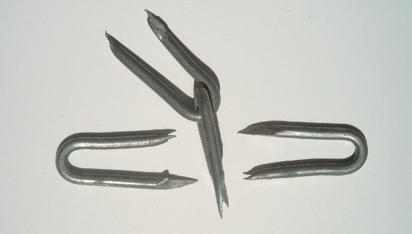 Iron cramps